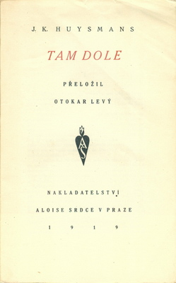 Huysmans: La-bas, title of the first czech edition, 1919